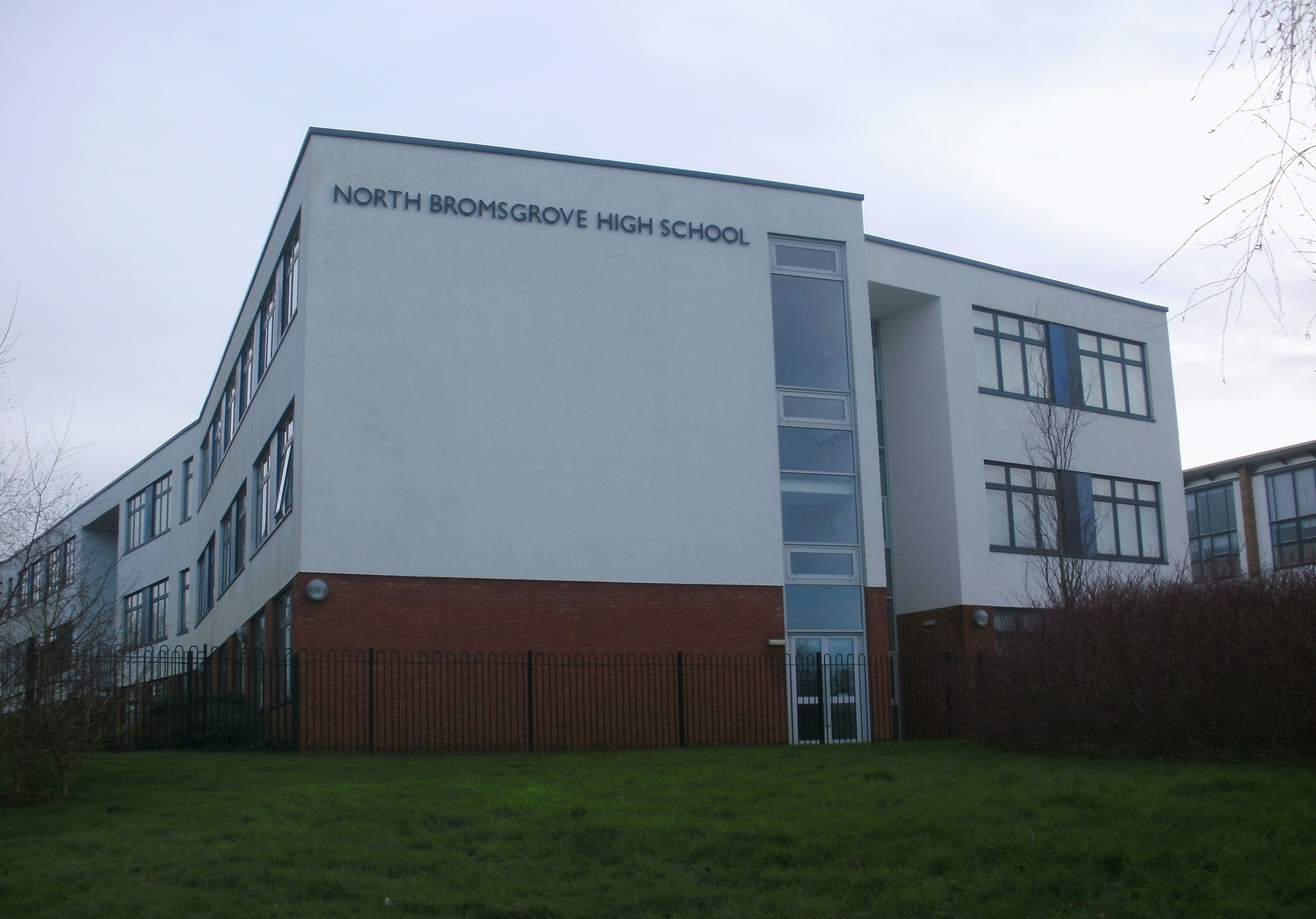 North Bromsgrove High School - front